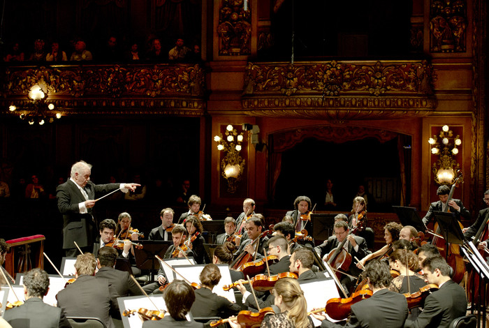 Daniel Barenboim performing at the Colon Theatre